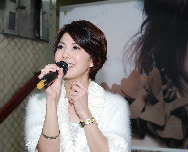 Valen Hsu performing at National Taiwan Normal UniversityBân-lâm-gú: Khóo Jû-hûn 2007-nî tī Su-tāi ê tshiam-tshiùnn-huē. 許茹芸2007年佇師大的簽唱會。